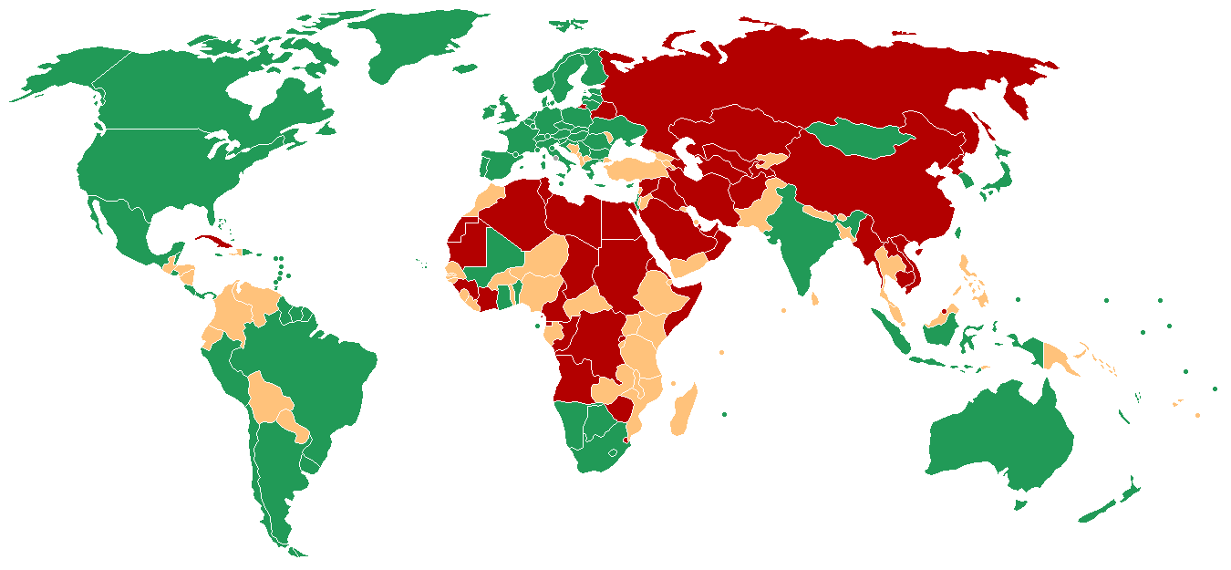 Map of Freedom 2009 (